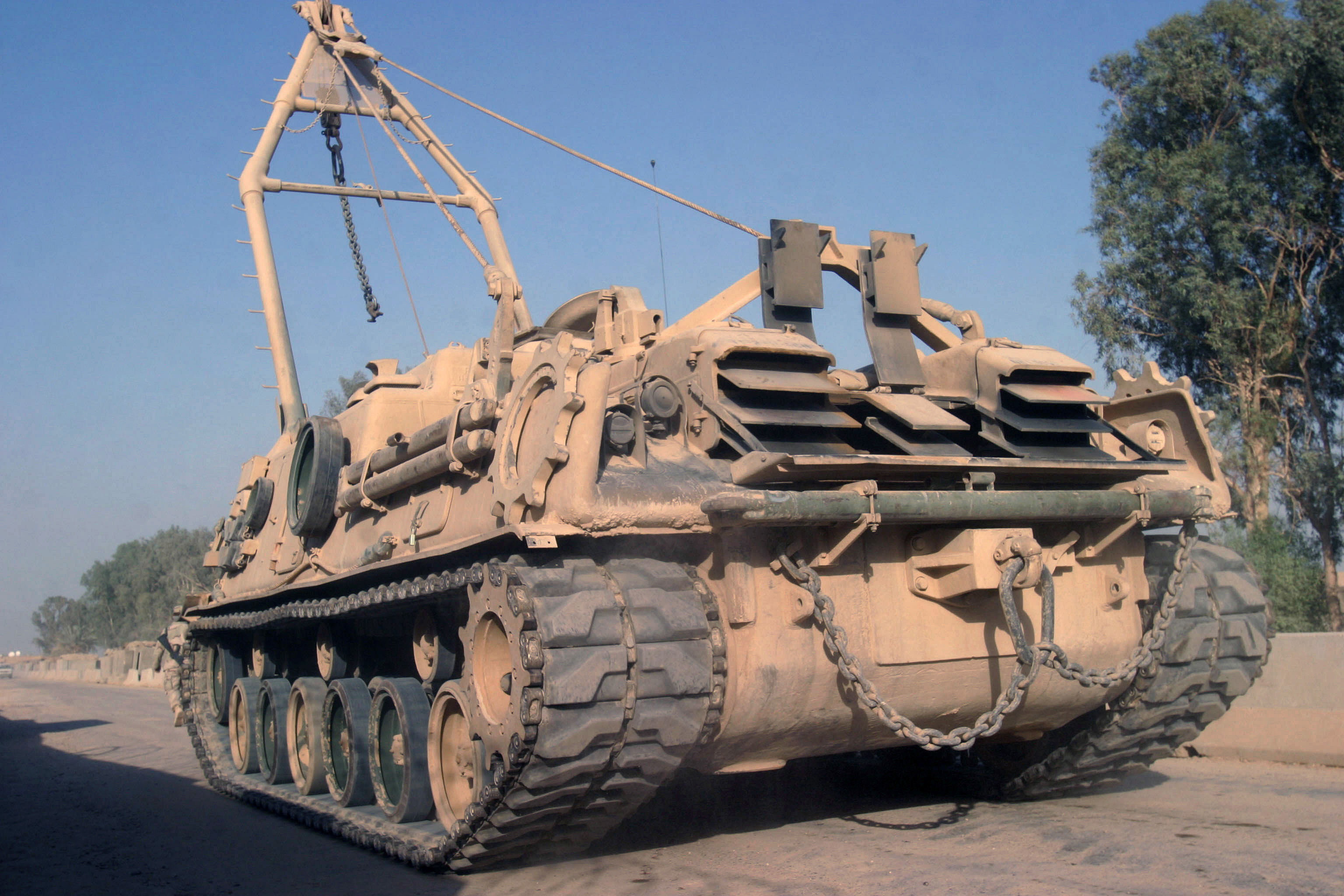 A US Army (USA) 2nd Squadron (SQDN), 11th Cavalry Regiment (CAV REGT), 155th Brigade Combat Team (BCT), Mississippi Army National Guard (MSARNG), M88A1 (Heavy Equipment Recovery Combat Utility Lift and Evacuation System) Recovery Vehicle travels along on the main road at Forward Operating Base (FOB) Kalsu, Iraq, during Operation IRAQI FREEDOM.